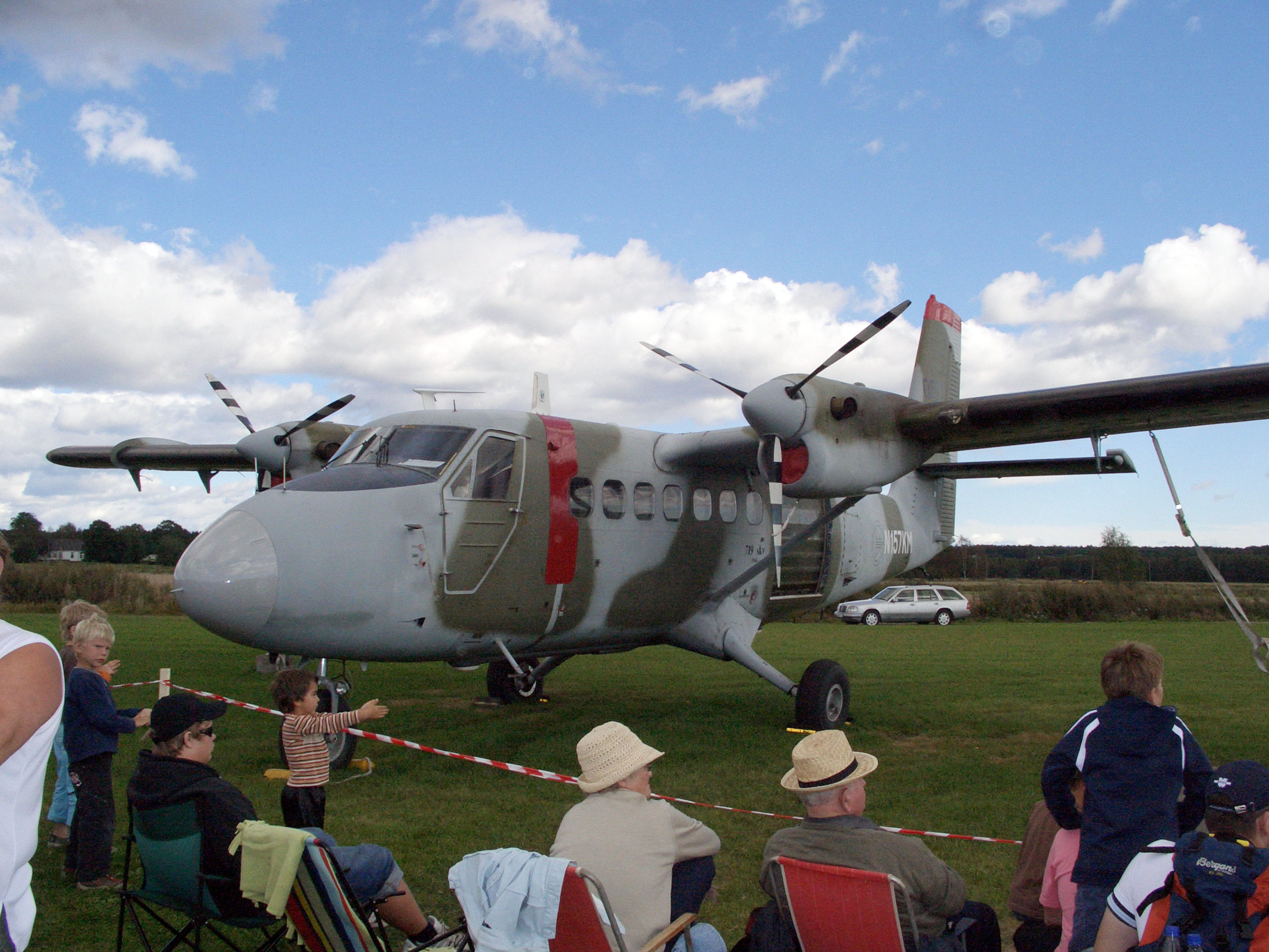 Norwegian Twin Otter, formerly in the Royal Norwegian Air Force